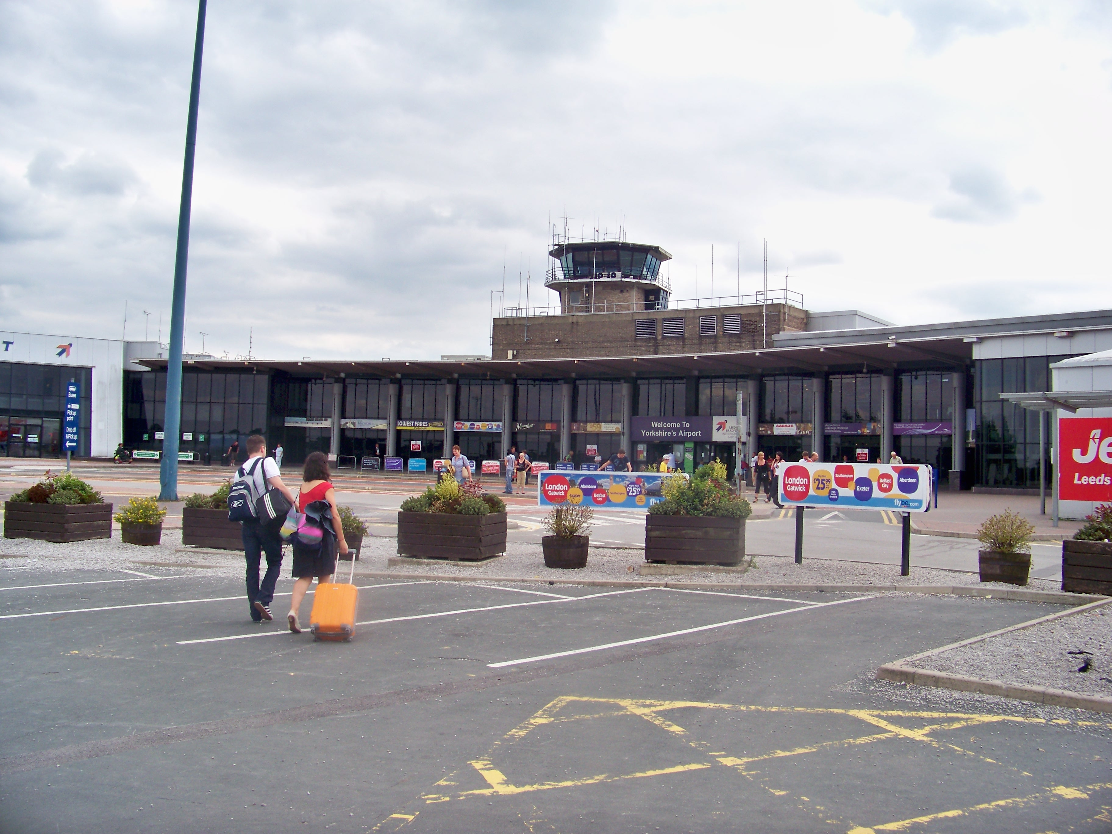 The front of the terminal at Leeds Bradford International Airport. Taken on the afternoon of Thursday the 24th of July 2010.